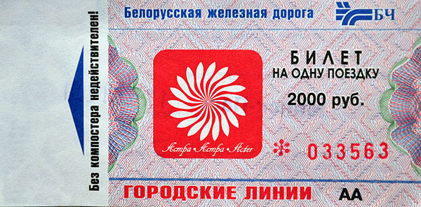 Minsk City Lines ticket Беларуская (тарашкевіца): Квіток менскіх «Гарадзкіх лініяў»